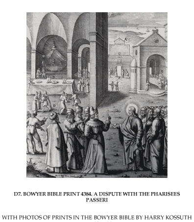 A dispute with the pharisees. Passeri. In the Bowyer Bible in Bolton Museum, England. Print 4384. From “An Illustrated Commentary on the Gospel of Mark” by Phillip Medhurst. Section D. Jesus confronts uncleanness. Mark 1:21-45, 2:1-12, 5:1-20, 25-34, 7:24-30.